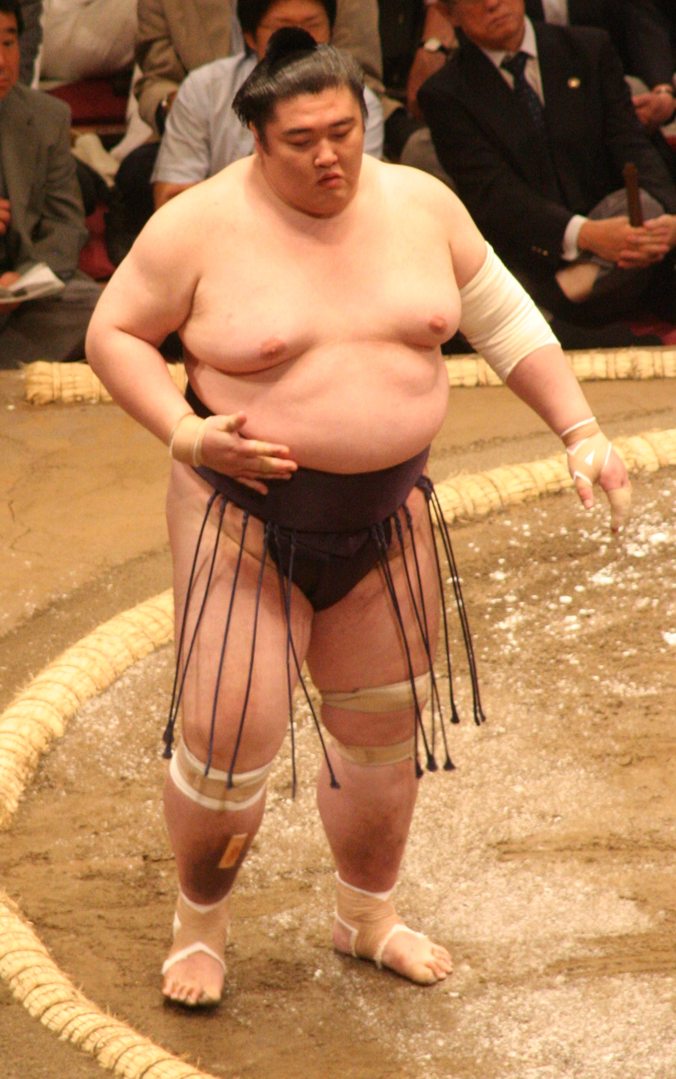 First day of 2009 May Sumo Tournament in Tokyo, Japan - Dejima